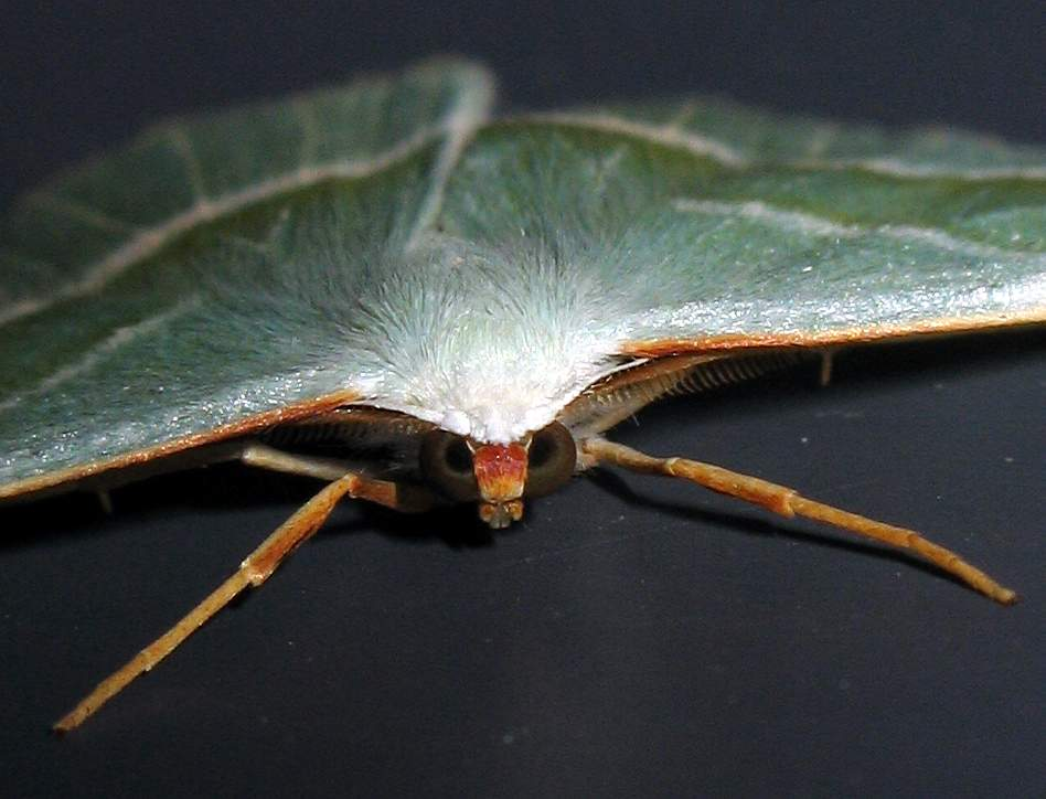 A Light Emerald (Campaea margaritata). Author: soebe Date: September 05, 2005 Location: Hamburg, Northern Germany Taken by Soebe in Northern Germany (Hamburg) and released under GNU FDL.